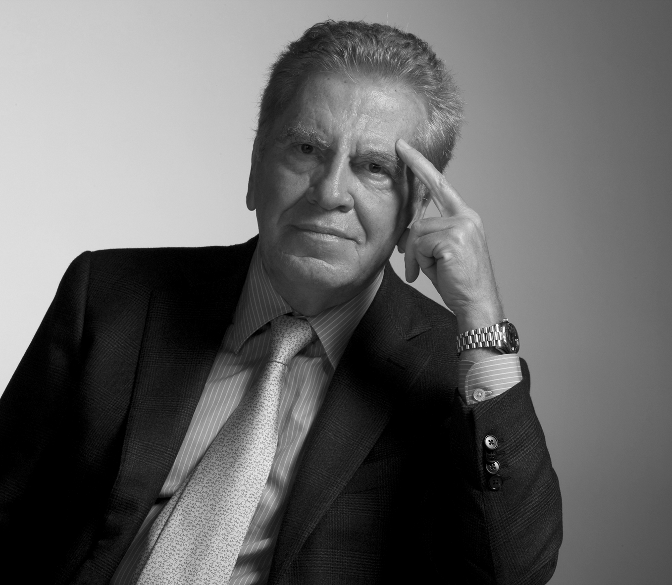 Portrait of Heinz Kroehl